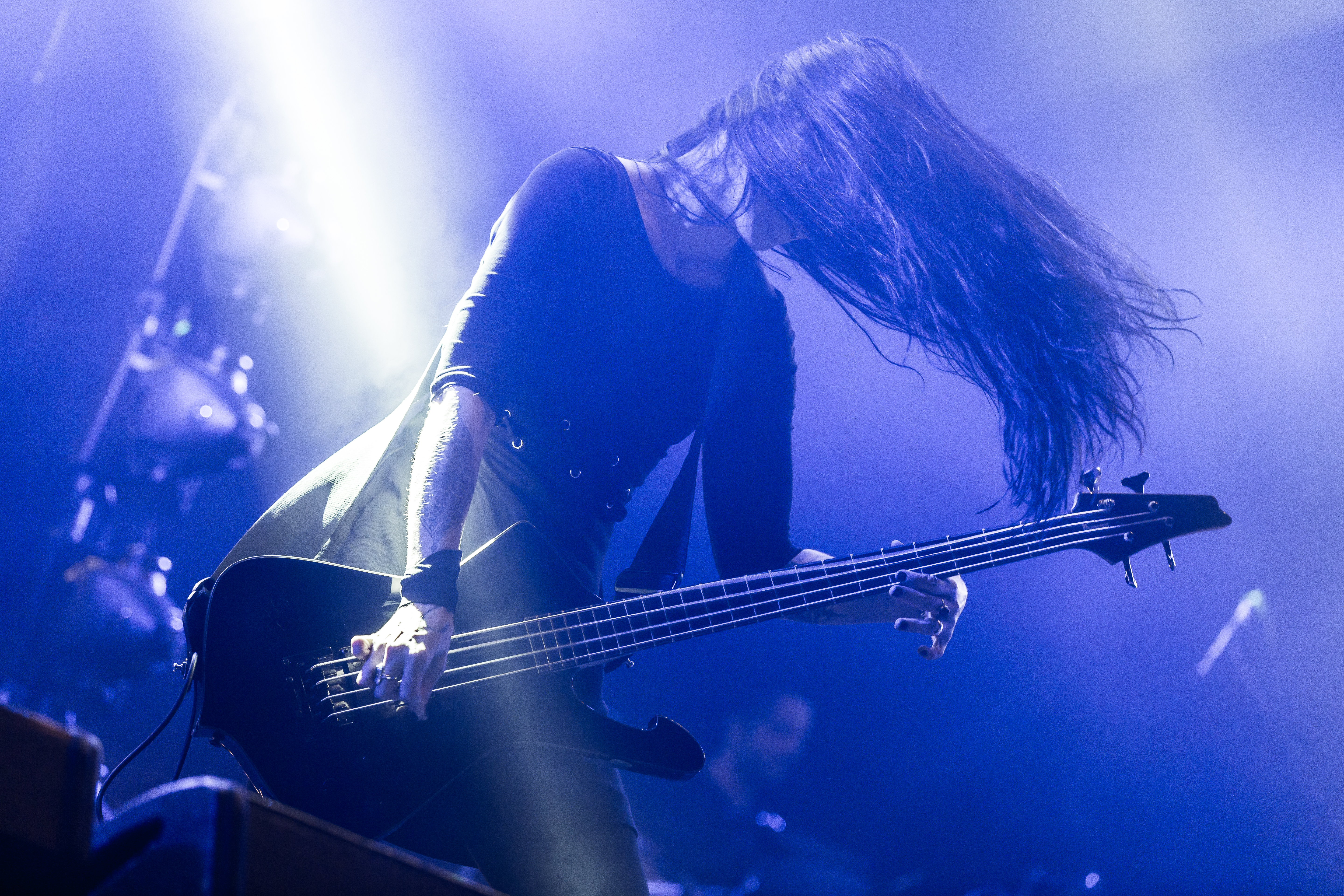 The Swiss gothic/doom/death/black Metal metal band Triptykon at the Party.San Metal Open Air 2017 in Obermehler-Schlotheim/Germany.